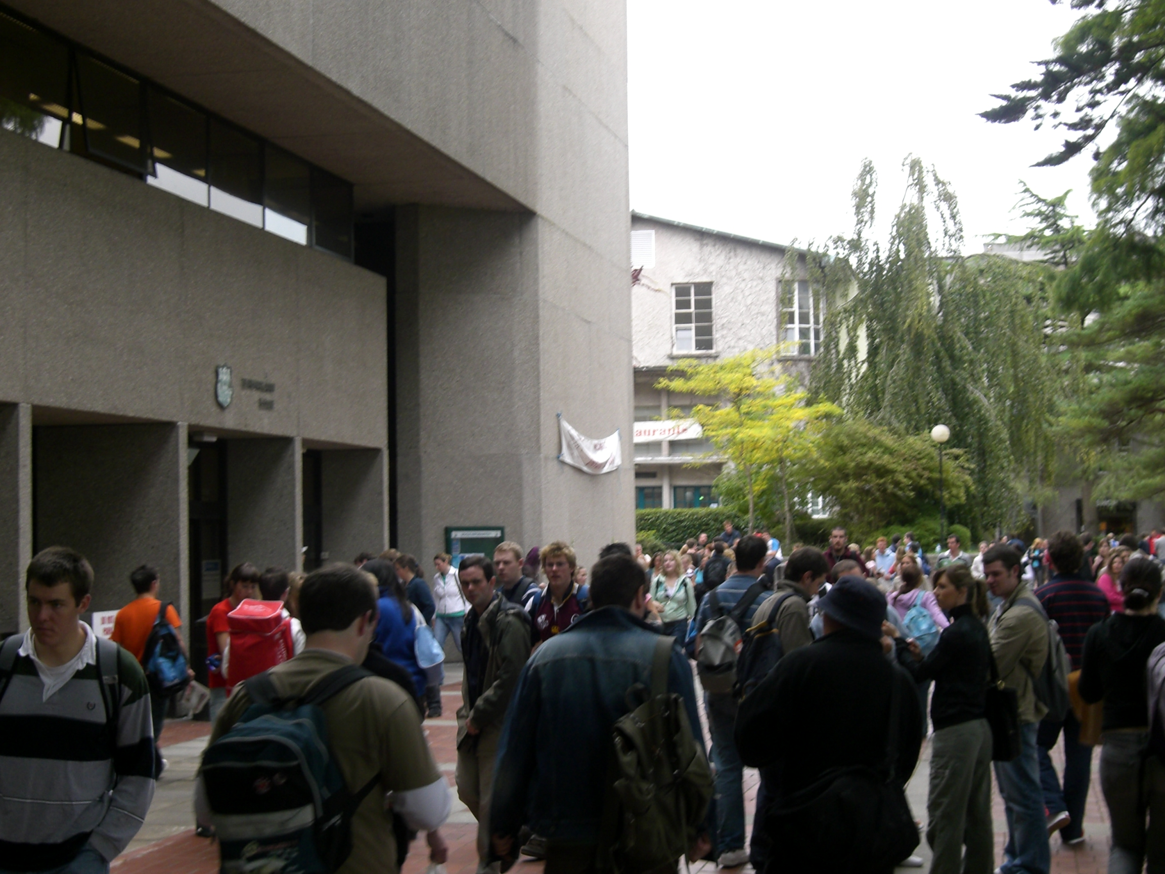 Parvis de la Boole Library, UCC, Cork